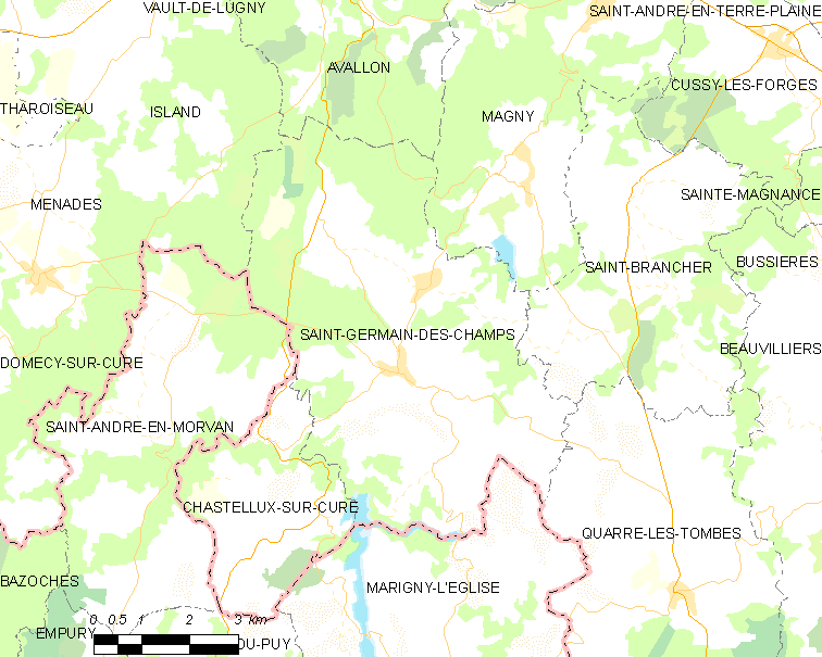 Map of French municipality Saint-Germain-des-Champs